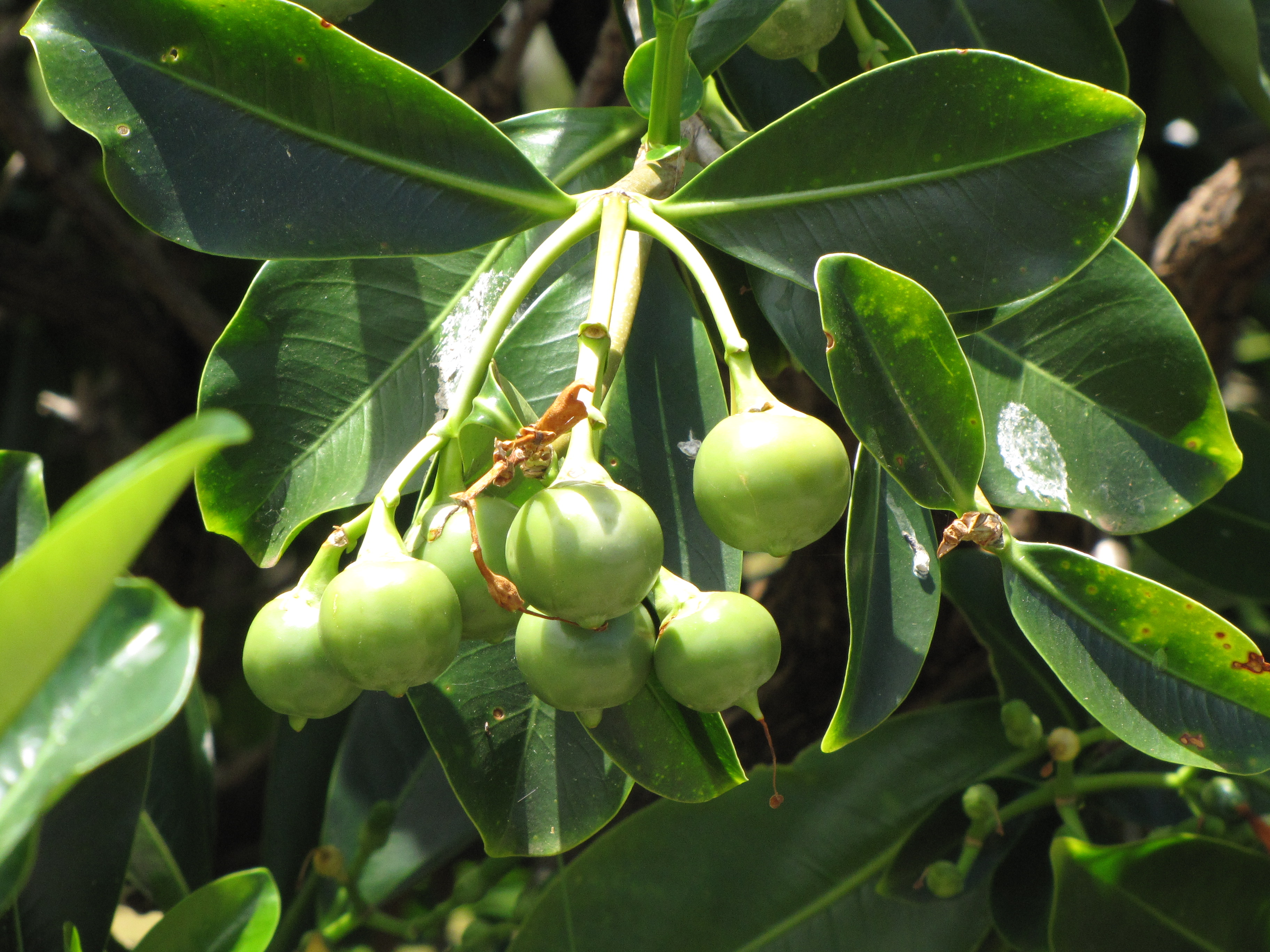 Fagraea berteroana (fruits). Location: Wailuku, Maui